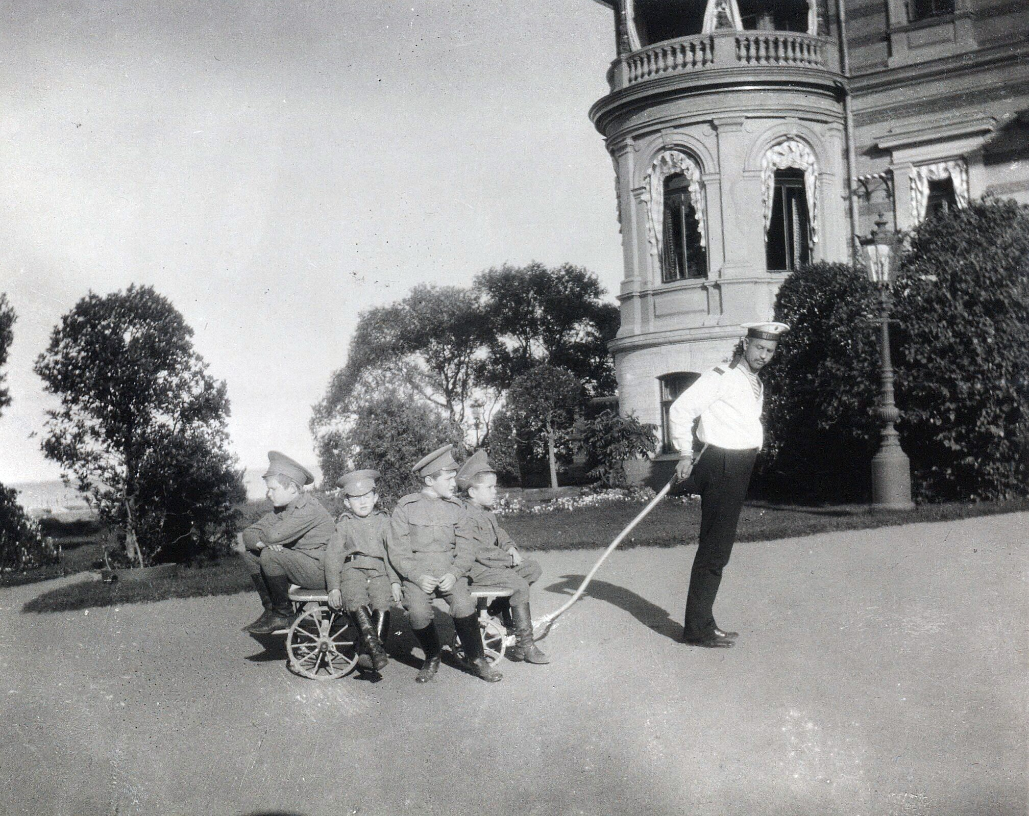 Servant for Tsarevich Alexei Nikolaievich of Russia sailor Mr. Nagorny and children (Tsarevich Alexei Nikolaievich among them). Original description: Alexis and his friends being pulled on a wagon by Nagorny at Alexandria Dacha, Peterhof.